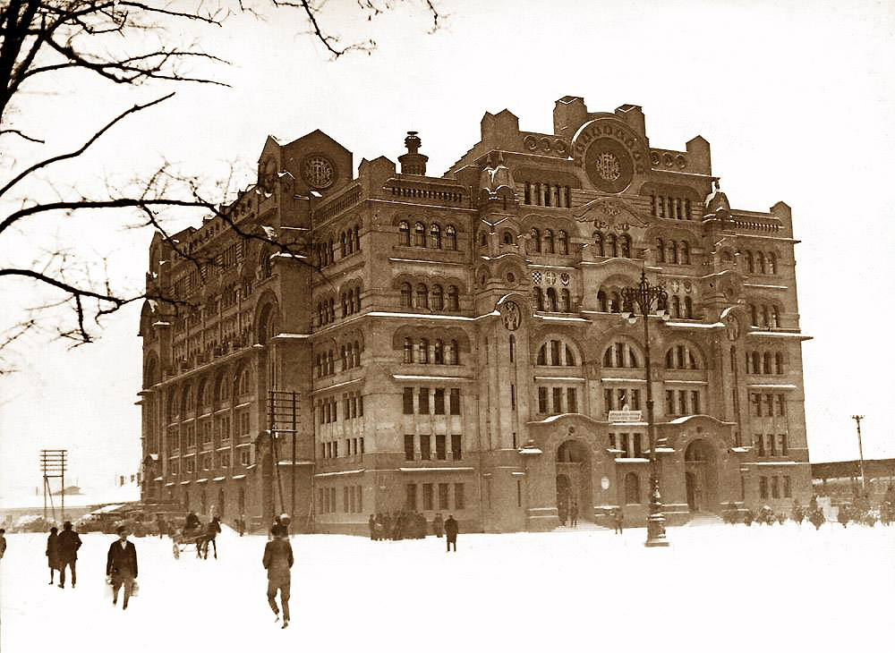 Old Post Office in Belgrade during winter